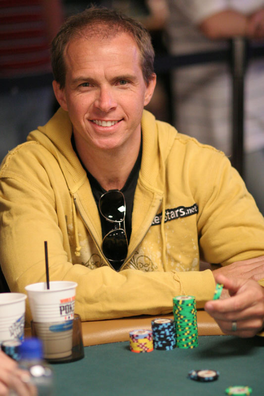 Brazilian poker player and racecar driver Gualter Saller during World Series of Poker, 2008